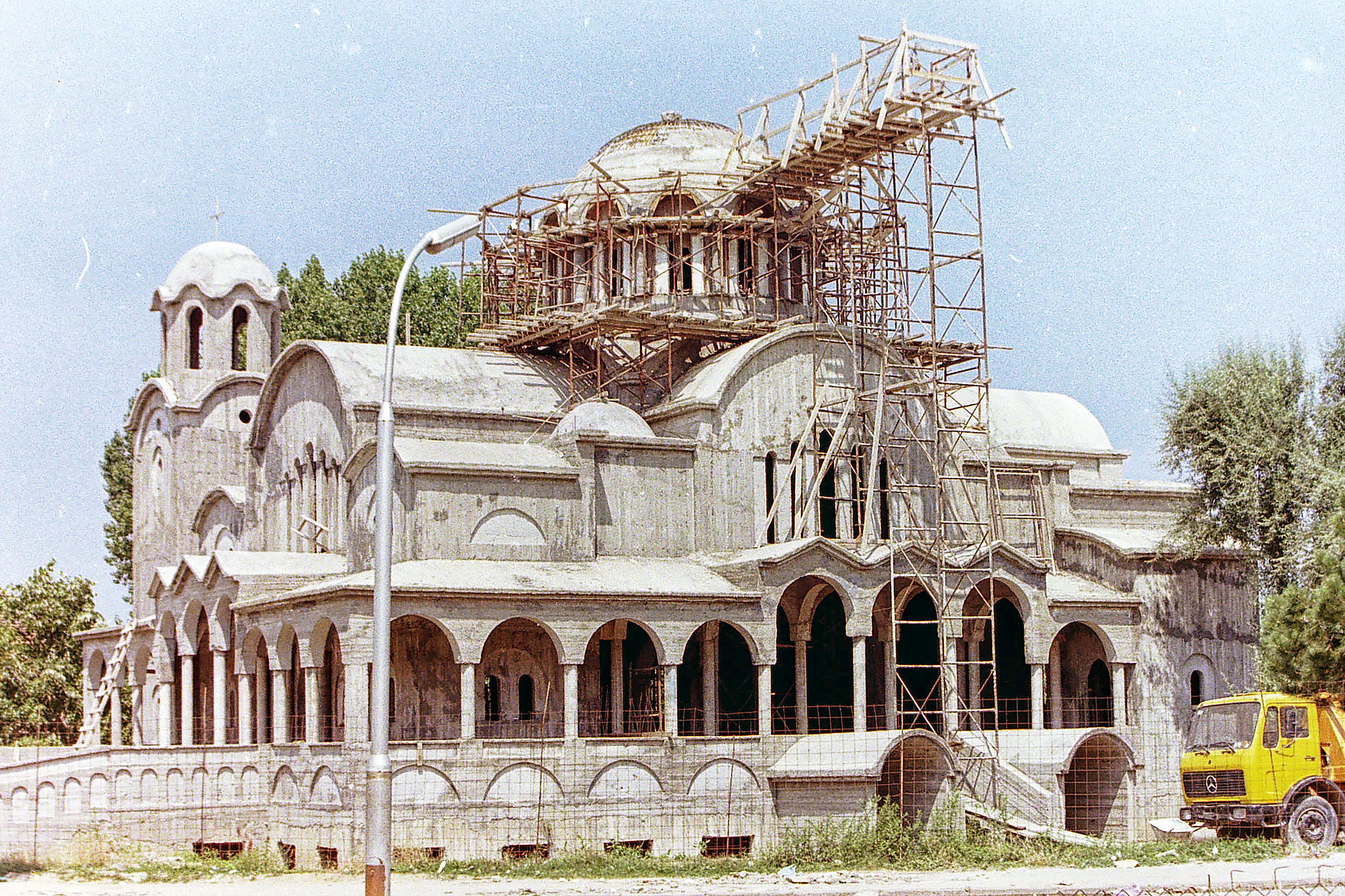 The Resurrection Church (Kisha Ngjallja e Krishtit) being built in Pogradec in 1995